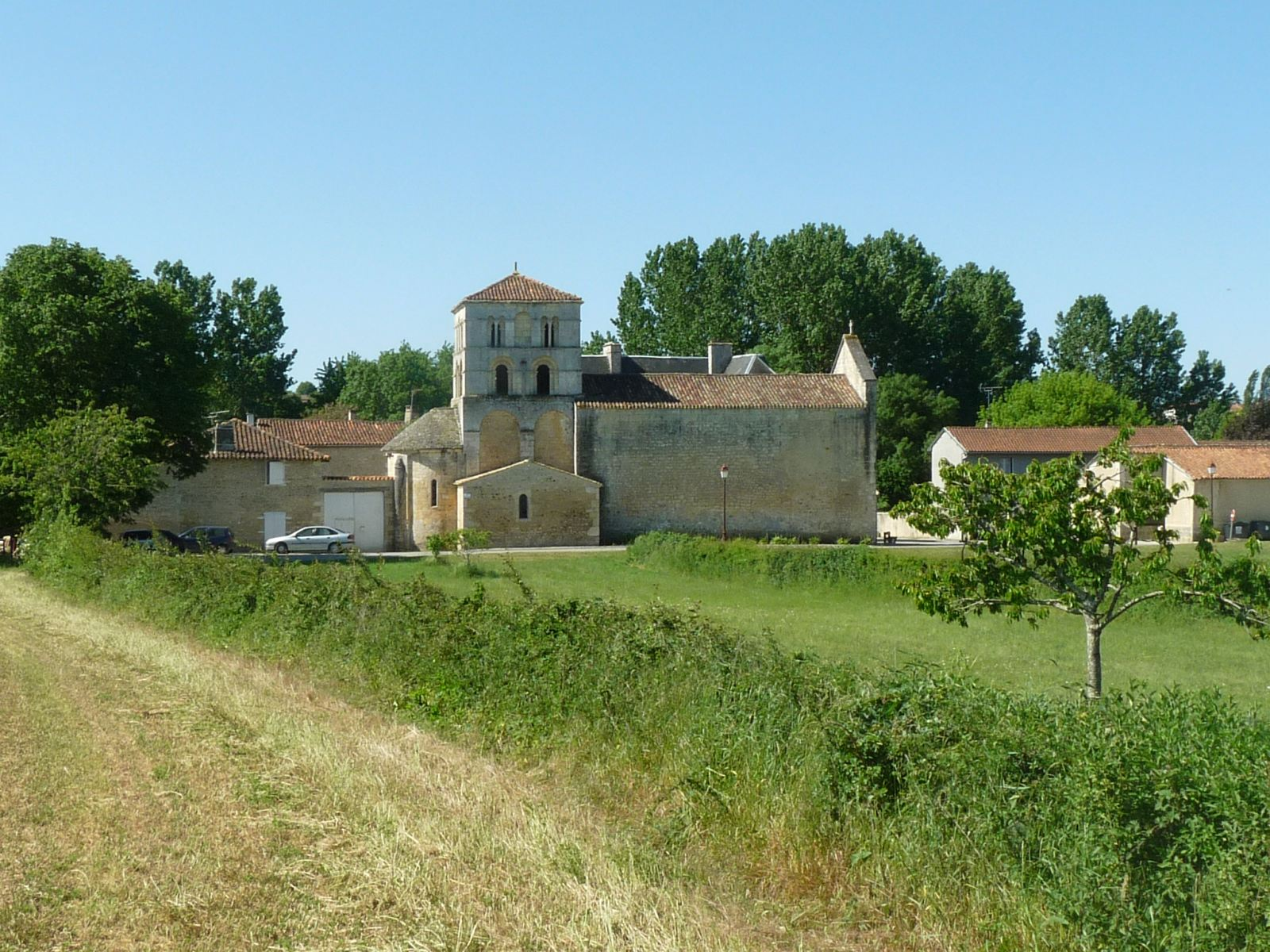 church of St-Amant-de-Bonnieure, Charente, SW France